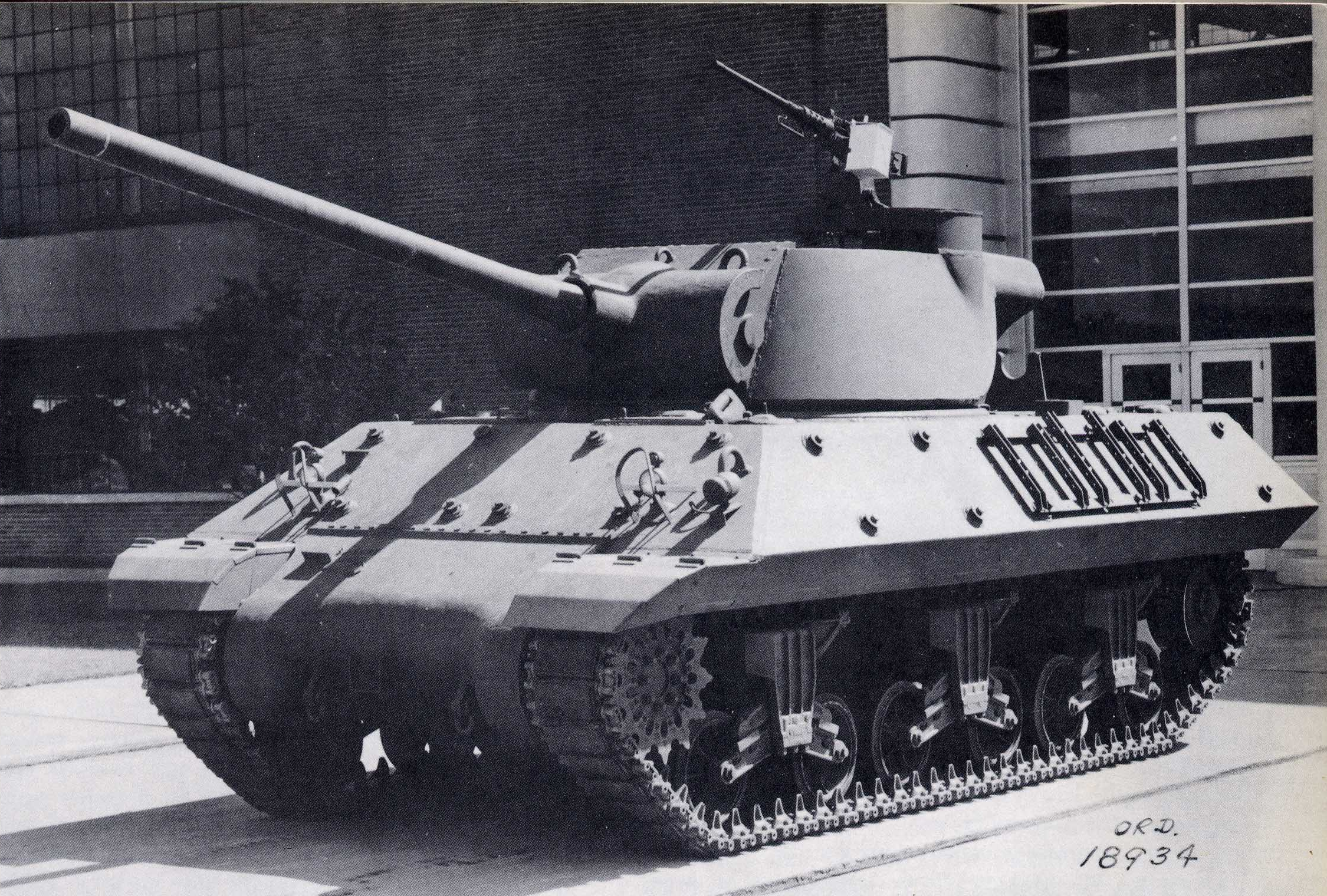 T71 (M36) Gun Motor Carriage first pilot